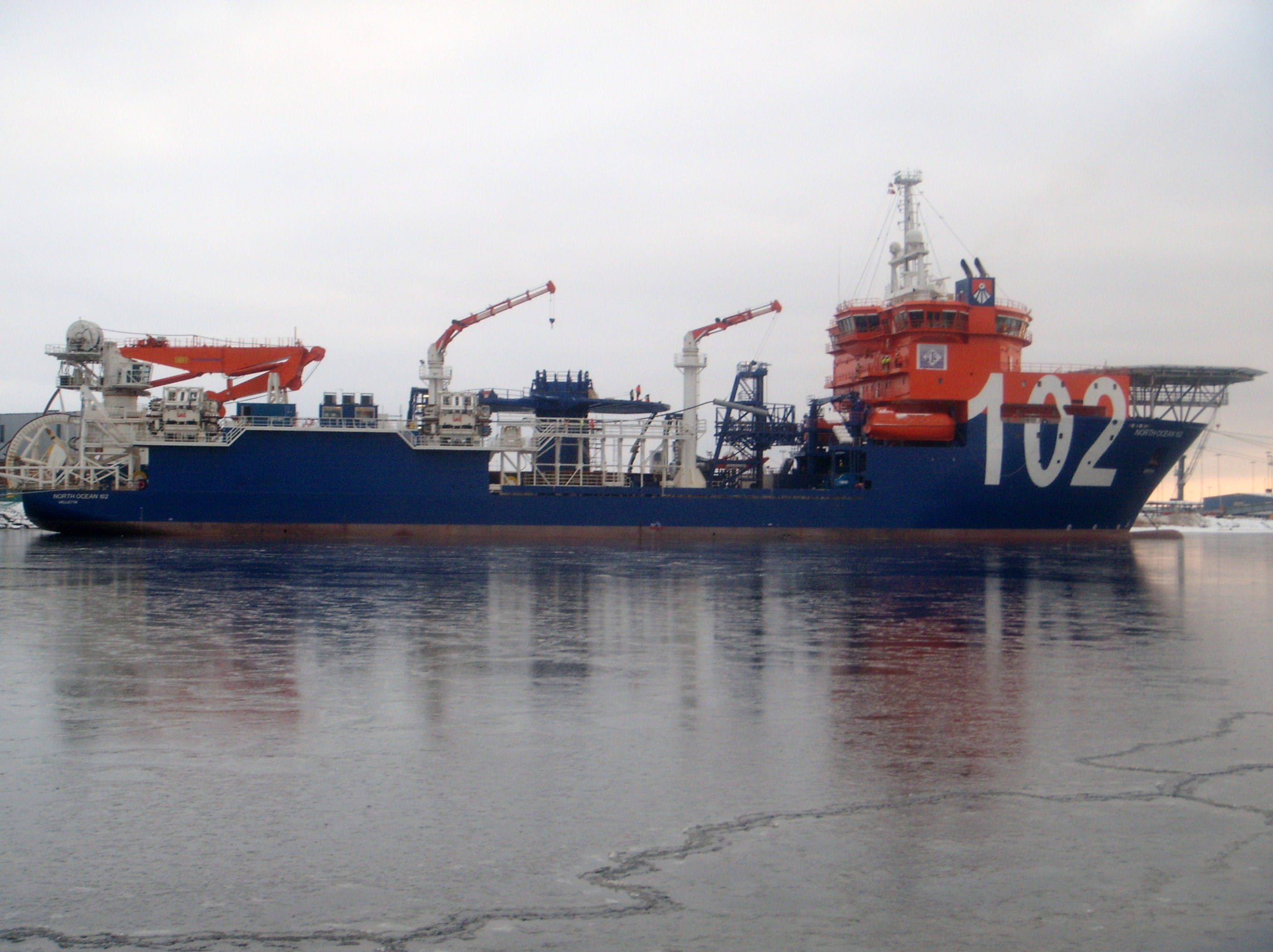 North Ocean 102 cable layer - Supply Ship.